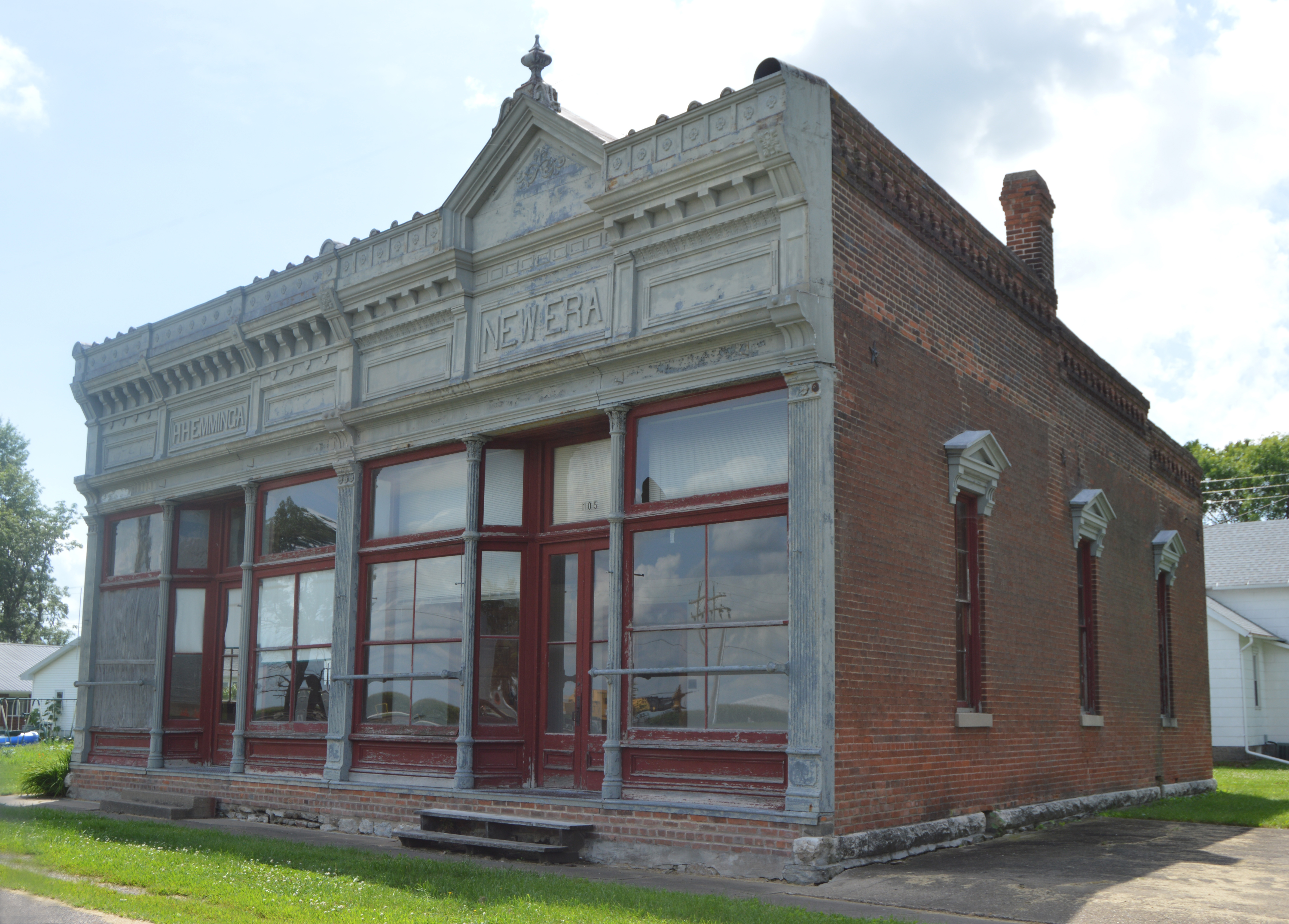 Front and northern side of the Exchange Bank, located on Quincy Street in Golden, Illinois, United States. Built in 1891, it is listed on the National Register of Historic Places.